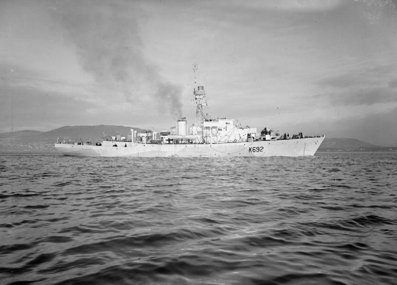 Photograph of British corvette HMS Oxford Castle.